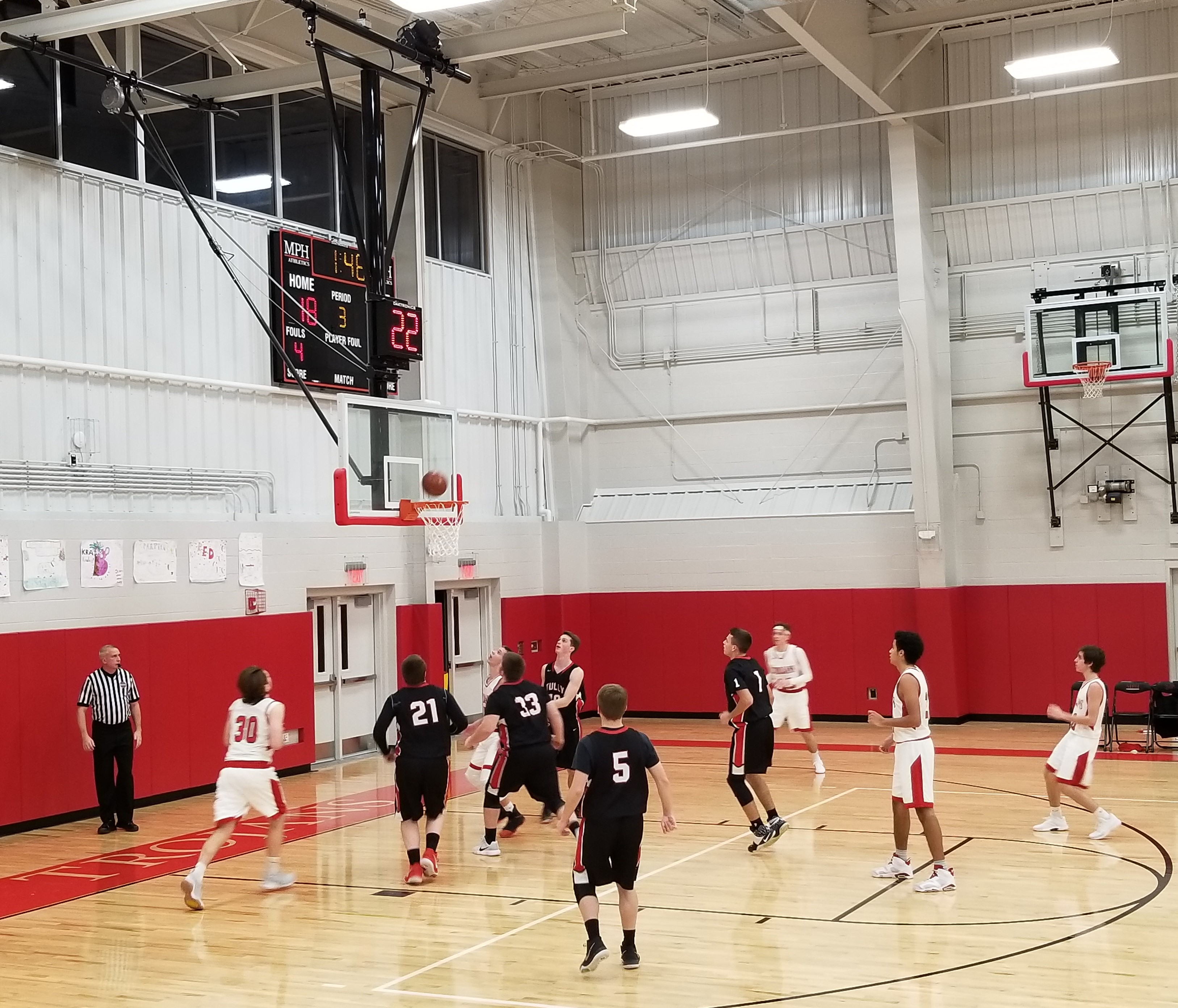 MPH Trojans v. Tully Black Knights -- varsity boy's basketball game in the new gymnasium and arts building, Manlius Pebble Hill School, DeWitt, NY, January 3, 2018.